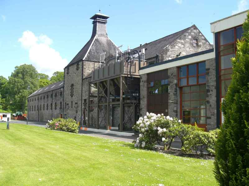 Aberfeldy Distillery, Scotland